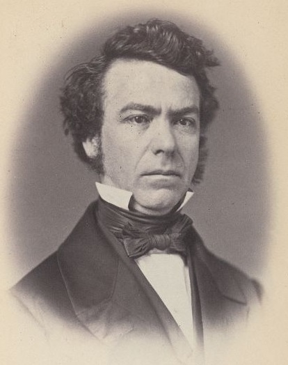 George Taylor, Congressman from Brooklyn, N.Y.